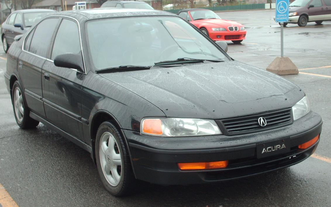 1997-1998 Acura 1.6EL photographed in Montreal, Quebec, Canada.